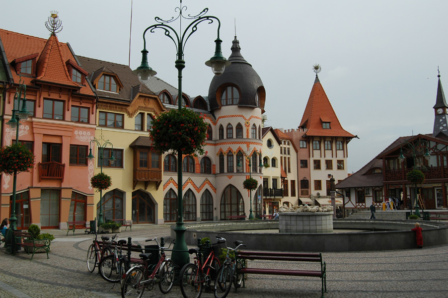 Komarno, Slovakia by marek